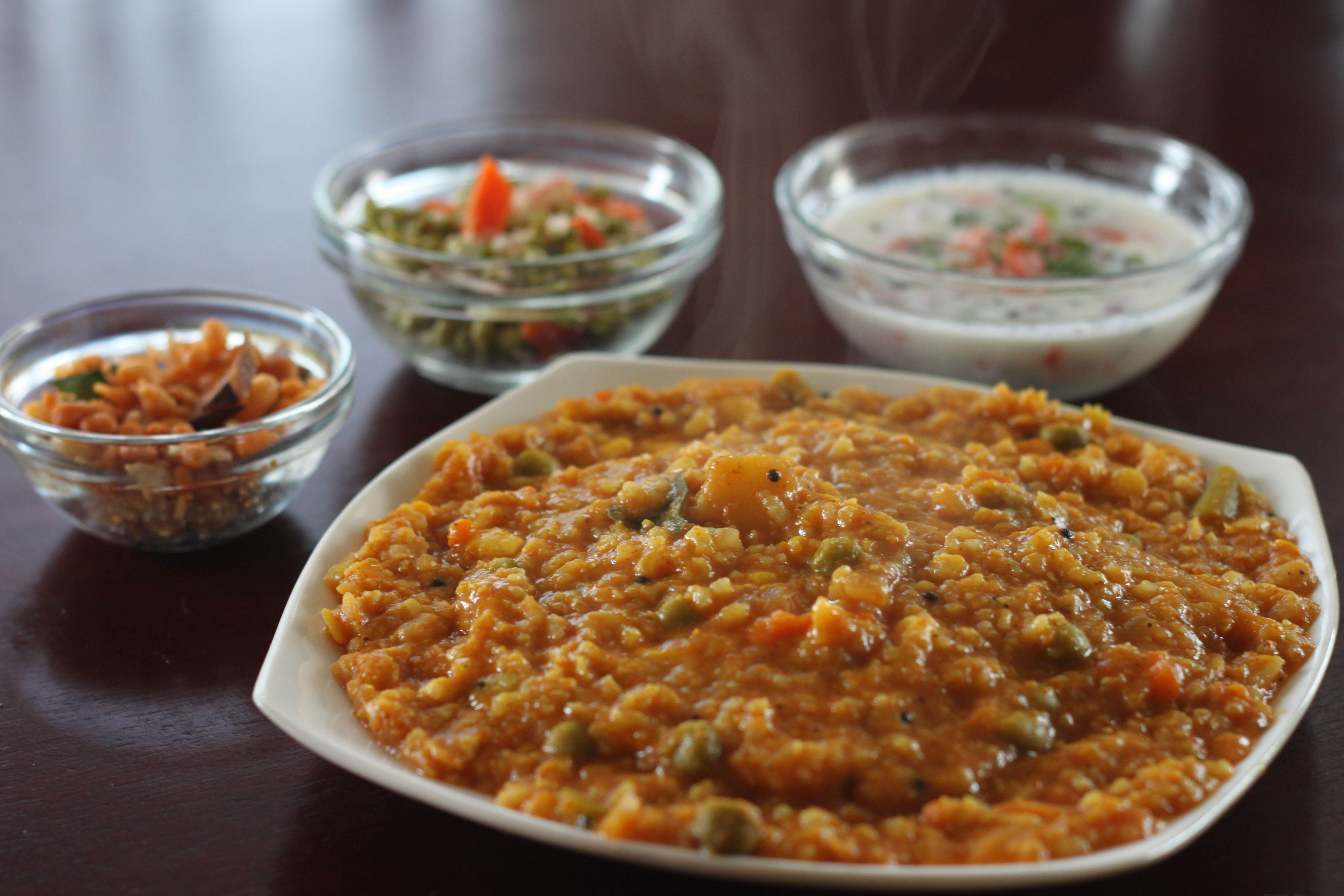 This is a South Indian rice dish known as bisibelebath, or bisi bele bath. It is made of rice, lentils, and other vegetables. Picture provided by Food and Remedy, at